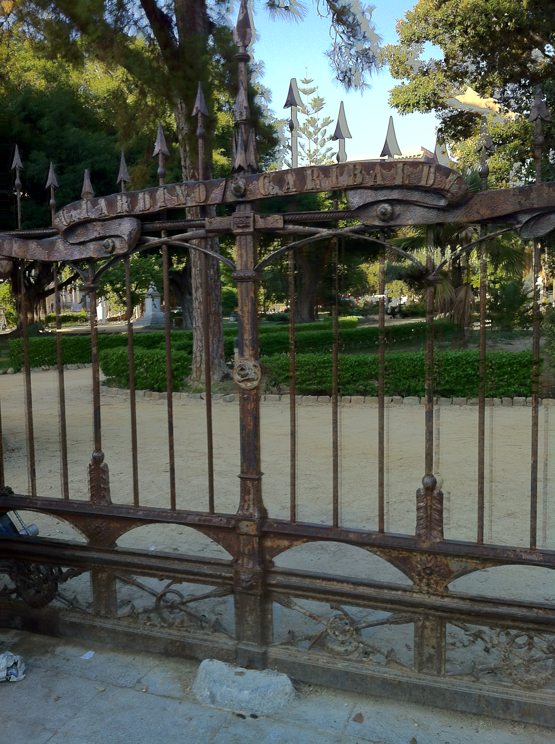 Giardino Garibaldi's entrance gate, in Palermo